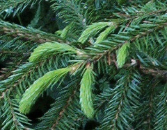 Young Picea koraiensis -tree. Taken by me 17. June 2005.